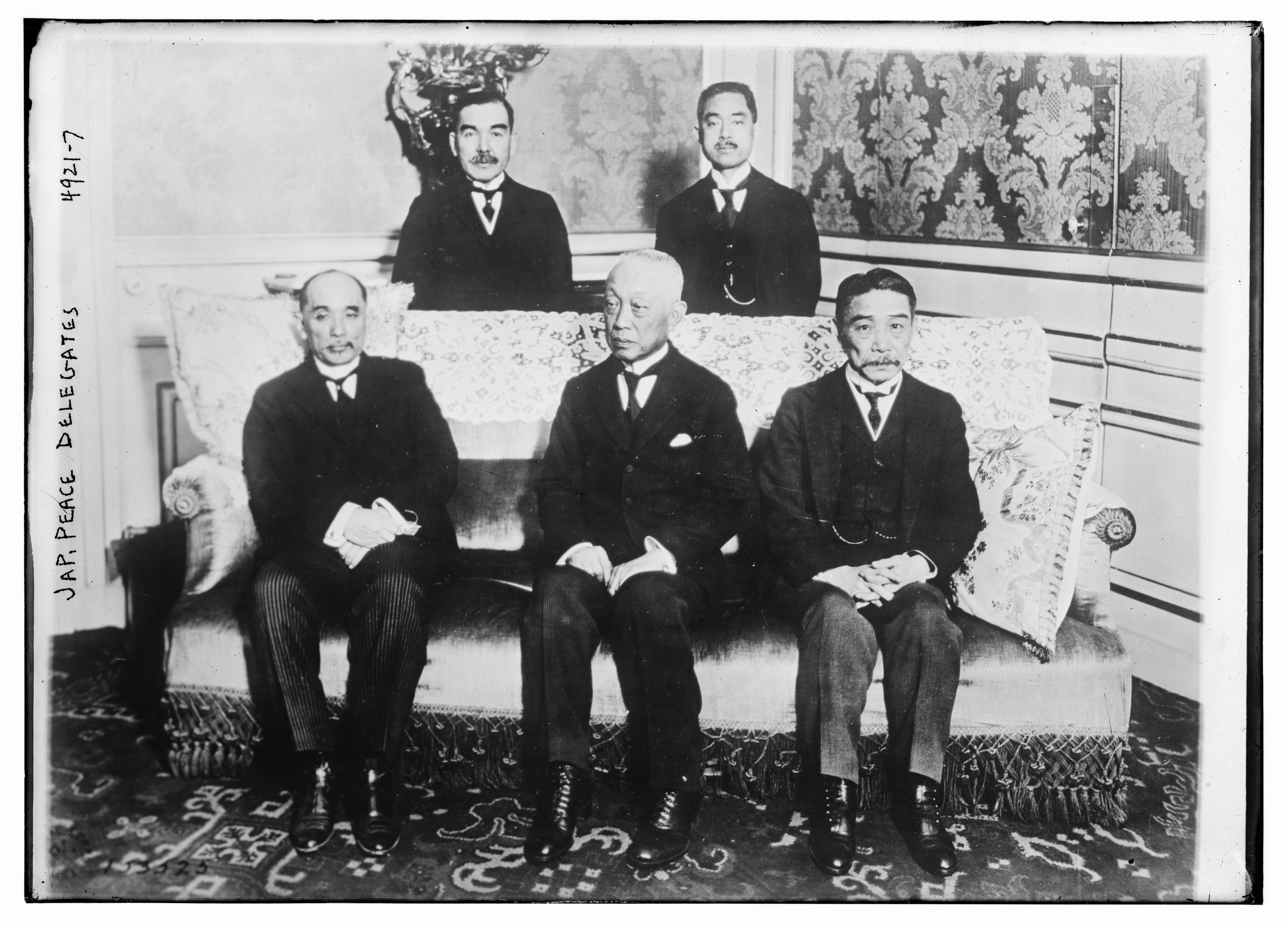 en: Japanese delegates to the Paris Peace Conference in 1919. Standing (l to r) - Hikokichi Ijūin, the Japanese Ambassador to Italy; and Keishirō Matsui, the Japanese Ambassador to France; Seated (l to r) - Baron Nobuaki Makino, former Foreign Minister; Marquis Kinmochi Saionji, former Prime Minister; and Viscount Sutemi Chinda, Ambassador to Great Britain. ja: 1919年パリ講和会議における日本全権団。前列左から 男爵牧野伸顕元外相、侯爵西園寺公望元首相、子爵珍田捨巳駐英大使。後列左から 伊集院彦吉駐伊大使、松井慶四郎駐仏大使。